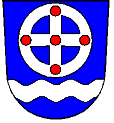 Coat of arms of Pirita, Tallinn, Estonia